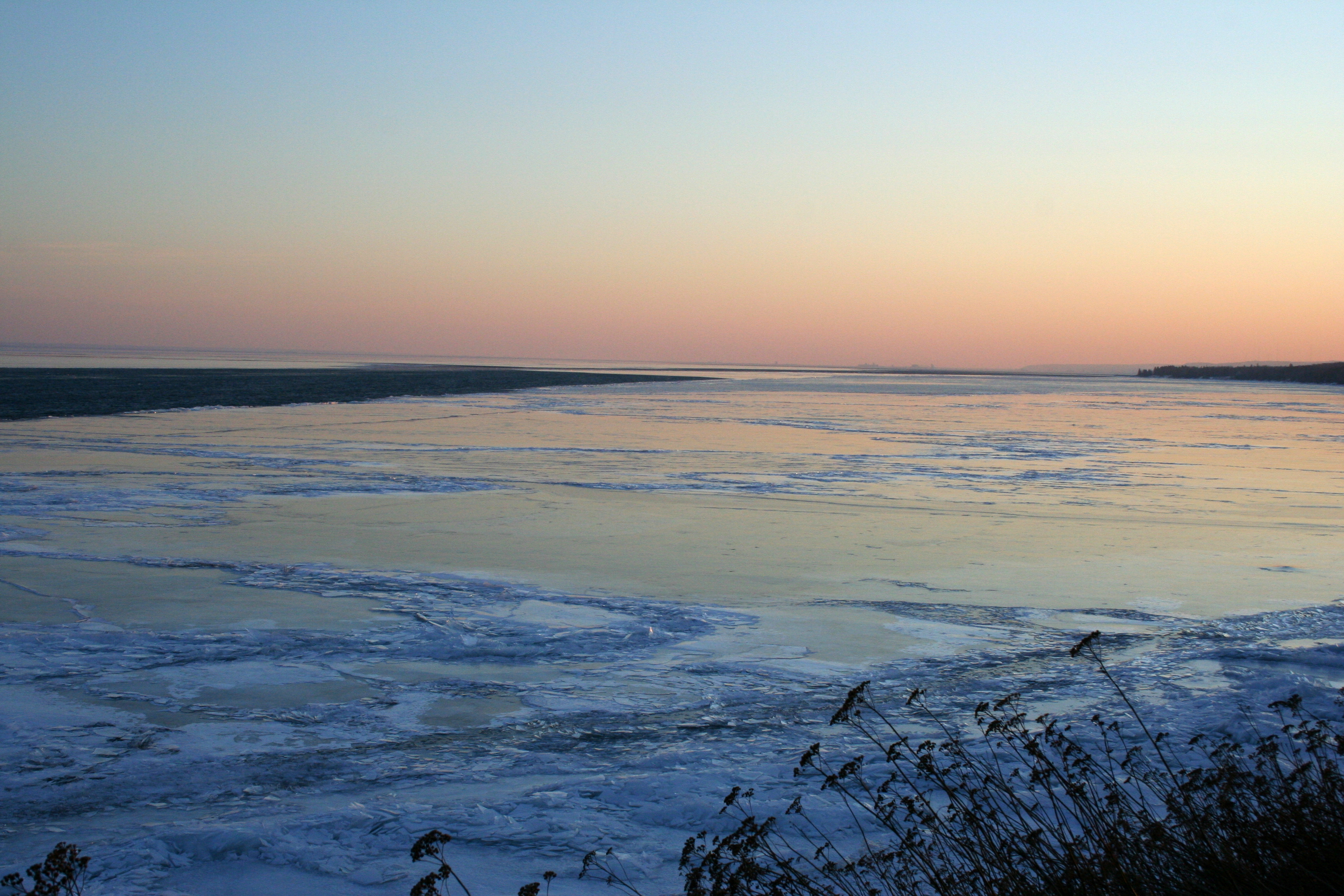 Sunset over the ice of Lake Superior